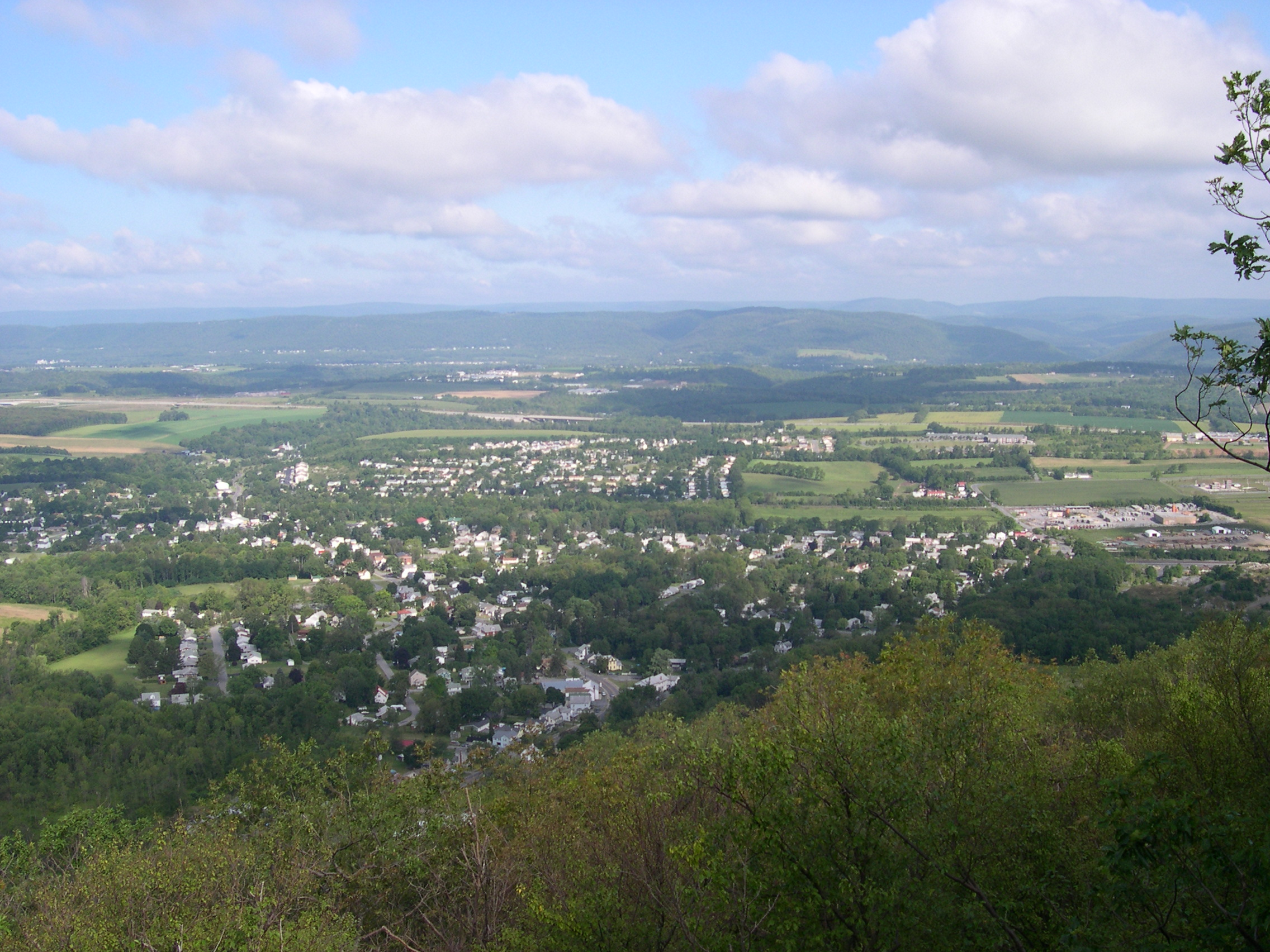 Pleasant Gap from "Big Rock" View